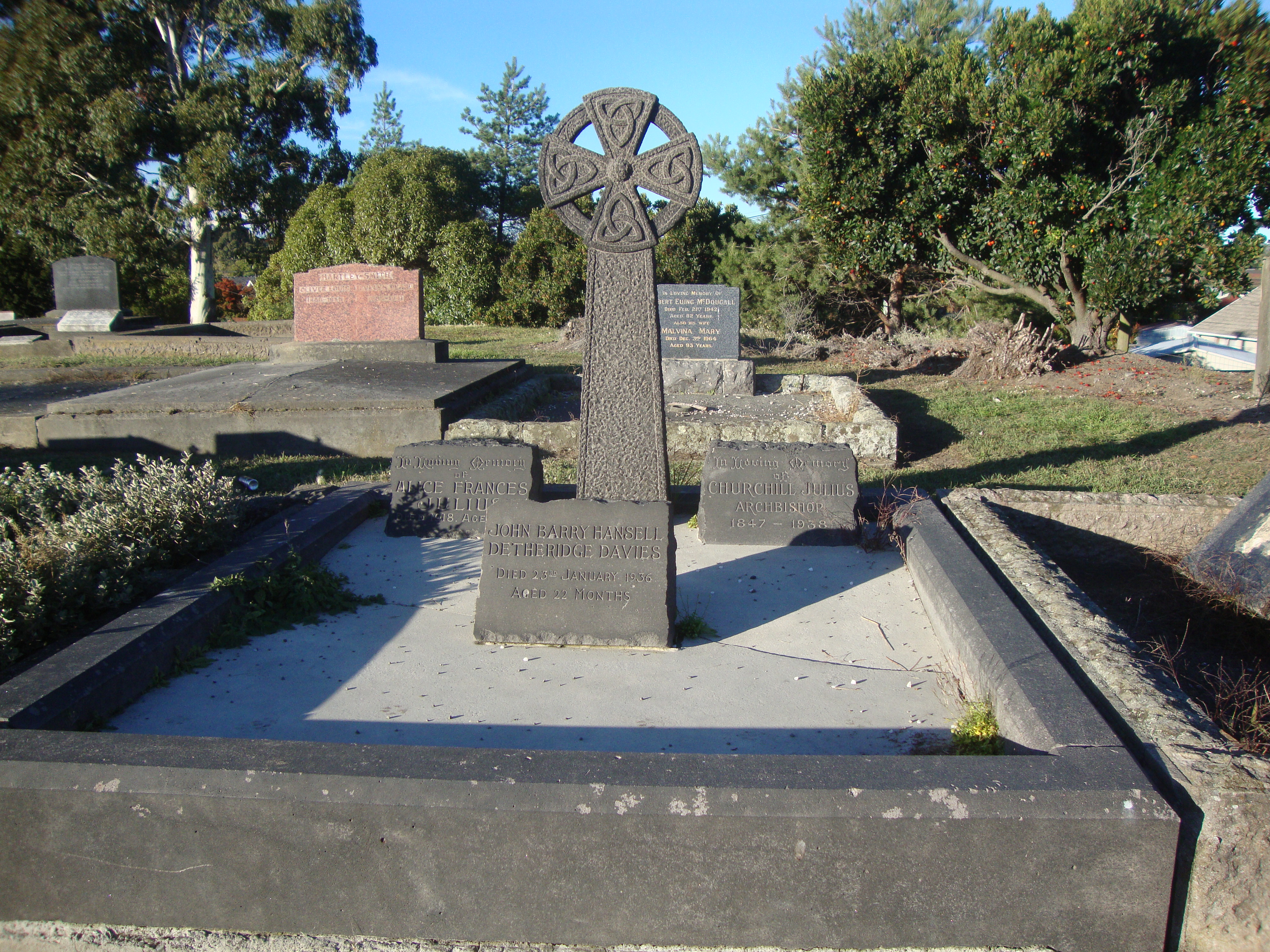 Grave of Churchill Julius.